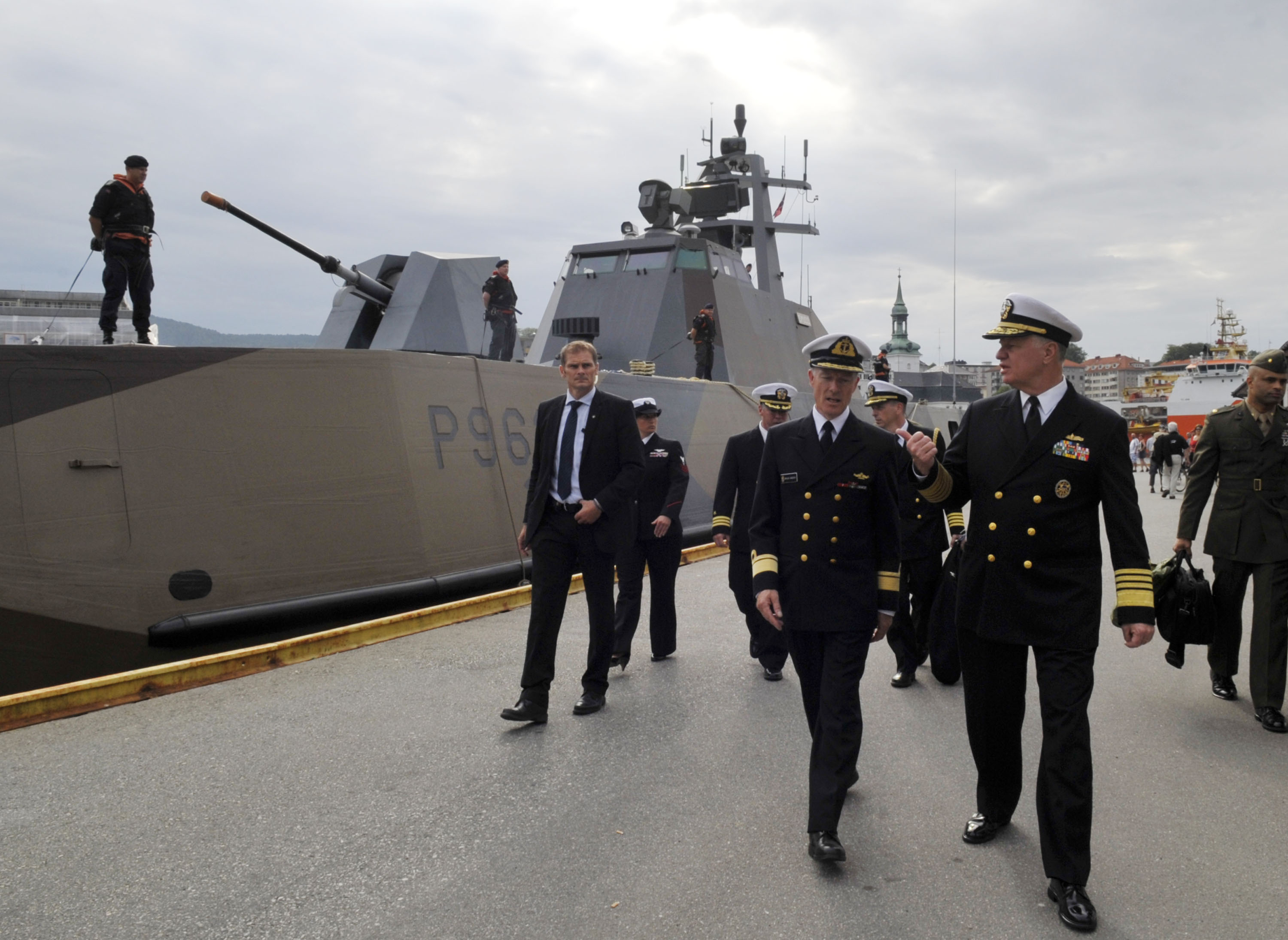 BERGEN, Norway - Chief of Naval Operations (CNO) Adm. Gary Roughead walks with Chief of the Royal Norwegian Navy Rear Adm. Haakon Bruun-Hanssen after getting underway aboard the Skjold-class corvette HNoMS Skudd (P 967) during a counterpart visit to Norway. The factual accuracy of this description or the file name is disputed. Reason: not sure about the identification of the ship.